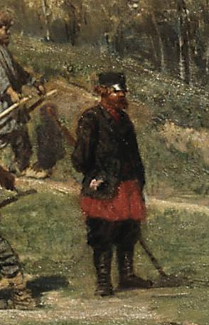 Repair work on the railway (painting by Konstantin Savitsky)